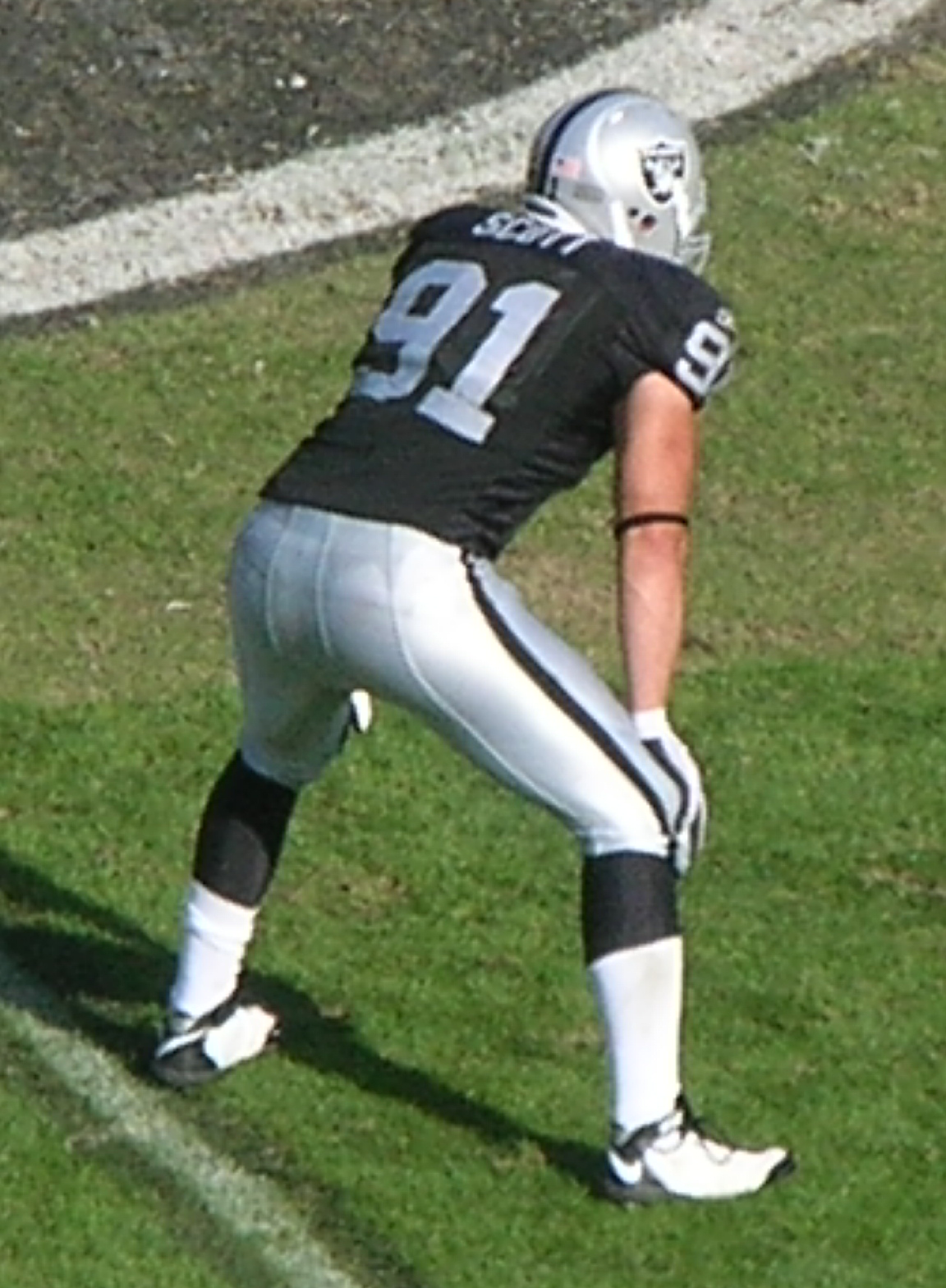 Oakland Raiders defensive end Trevor Scott at a home game against the Atlanta Falcons. The Falcons won 24-0.